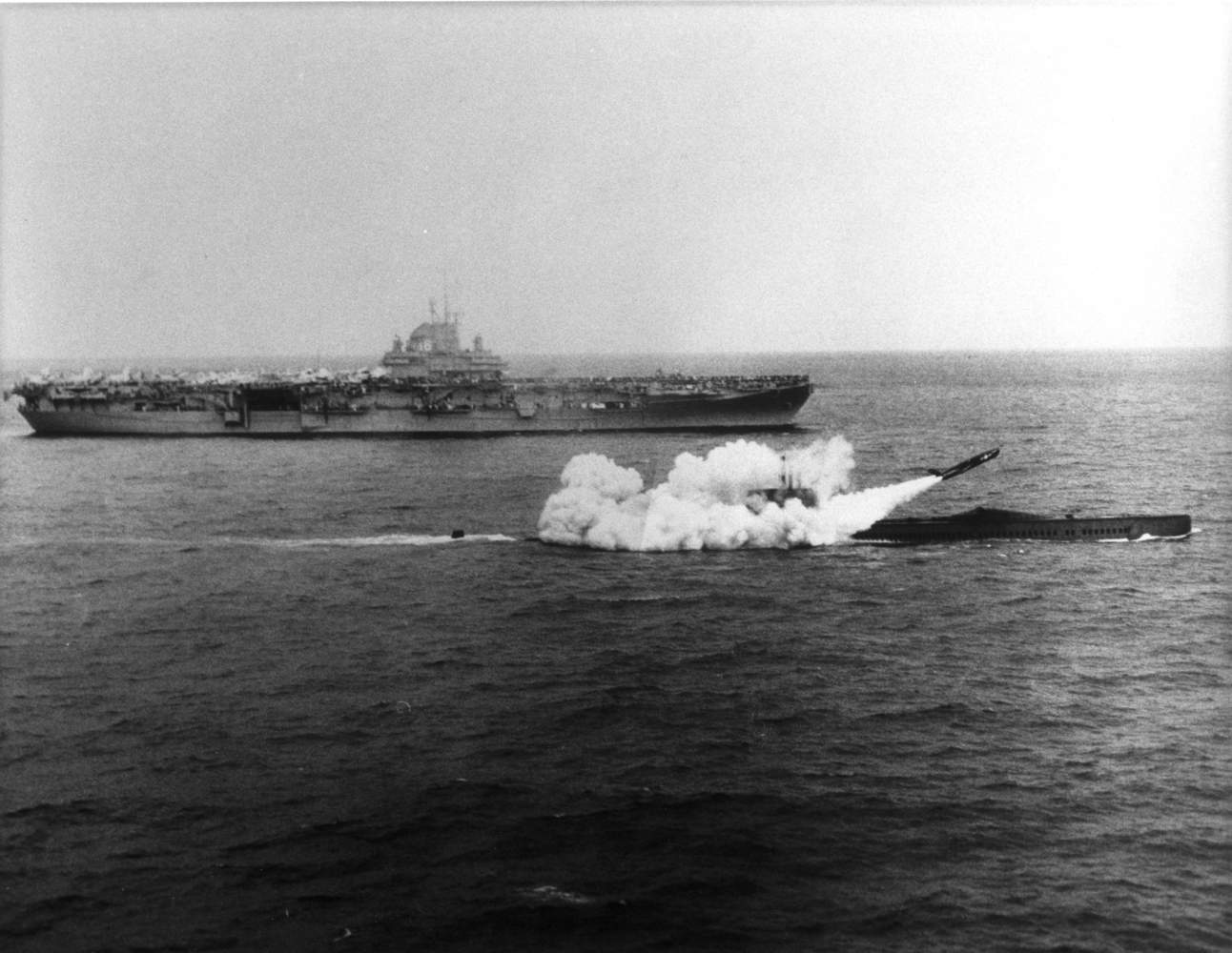 USS Halibut (SSGN-587) firing a Regulus missile next to USS Lexington (CV-16), 25 March 1960.